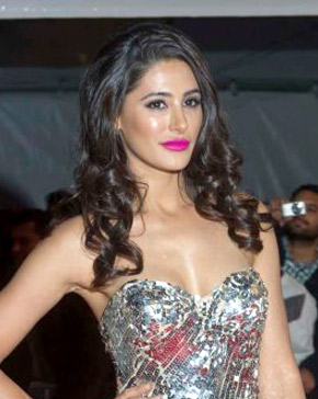 Nargis Fakhri at the Times Of India Film Awards 2013 (TOIFA)